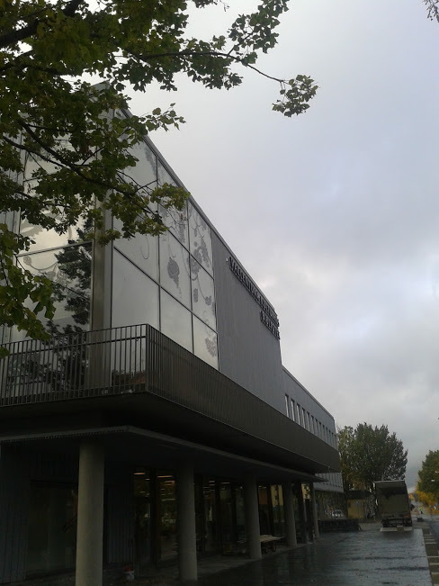 House of culture and library in Vallentuna